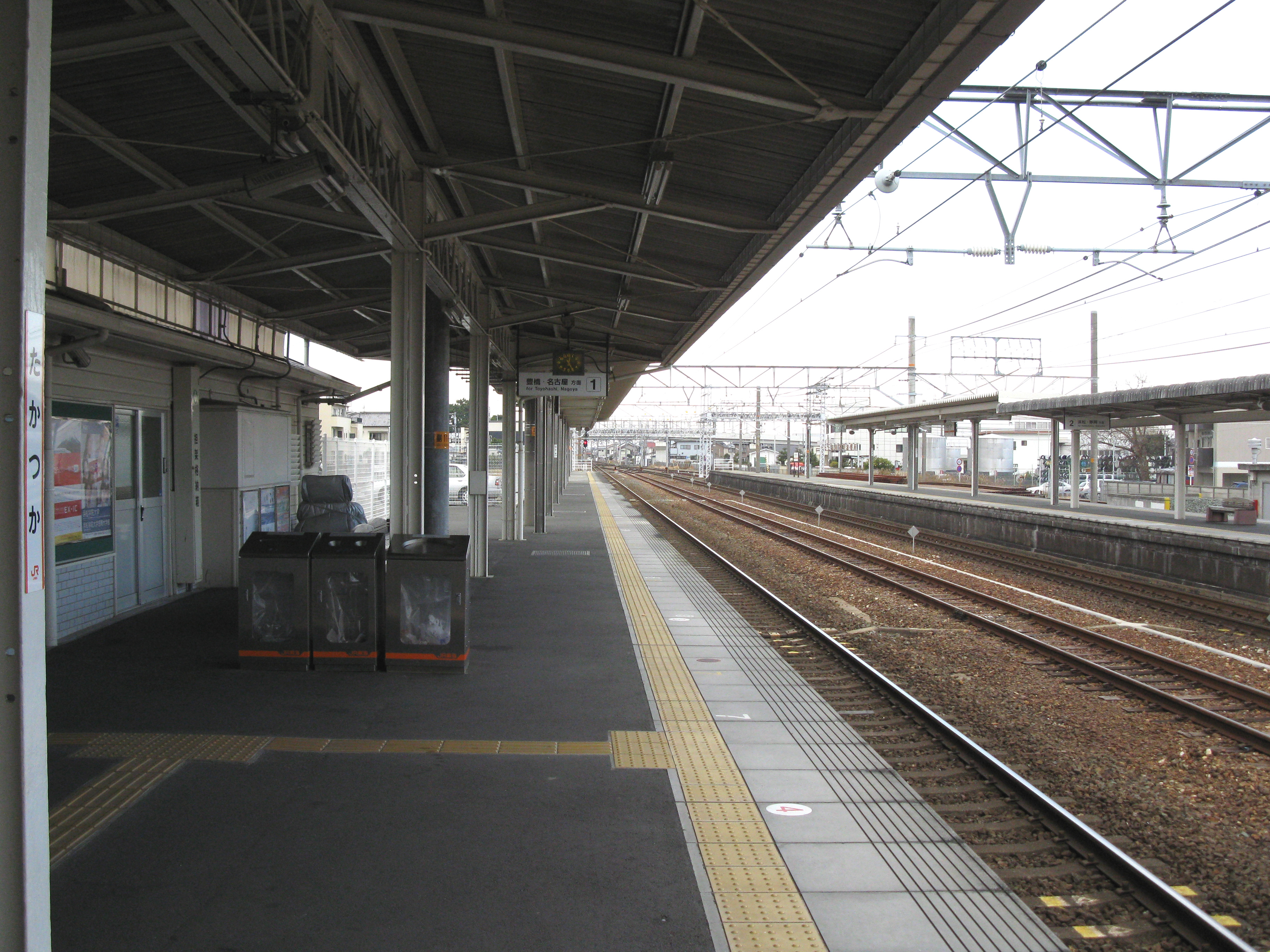 The platforms at Takatsuka Station on the Central Japan Railway(JR Central) Tōkaidō Main Line in Hamamatsu city, Shizuoka prefecture, Japan